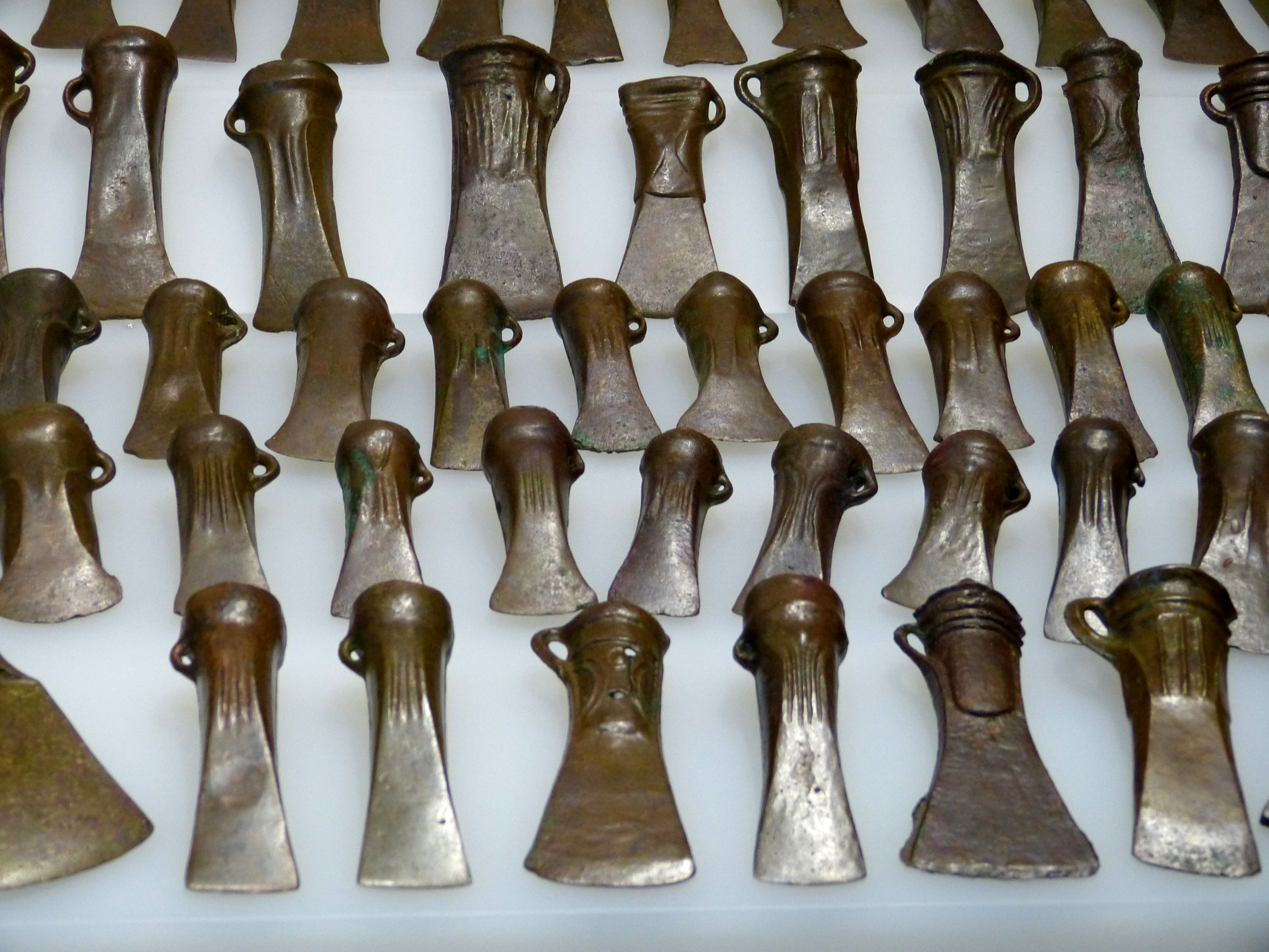 Brandenburg an der Havel ( Germany ). Archaeological Museum of the state of Brandenburg - Bronze Age Gallery: Bronze Age hoard of axes, from Groß Gaglow.